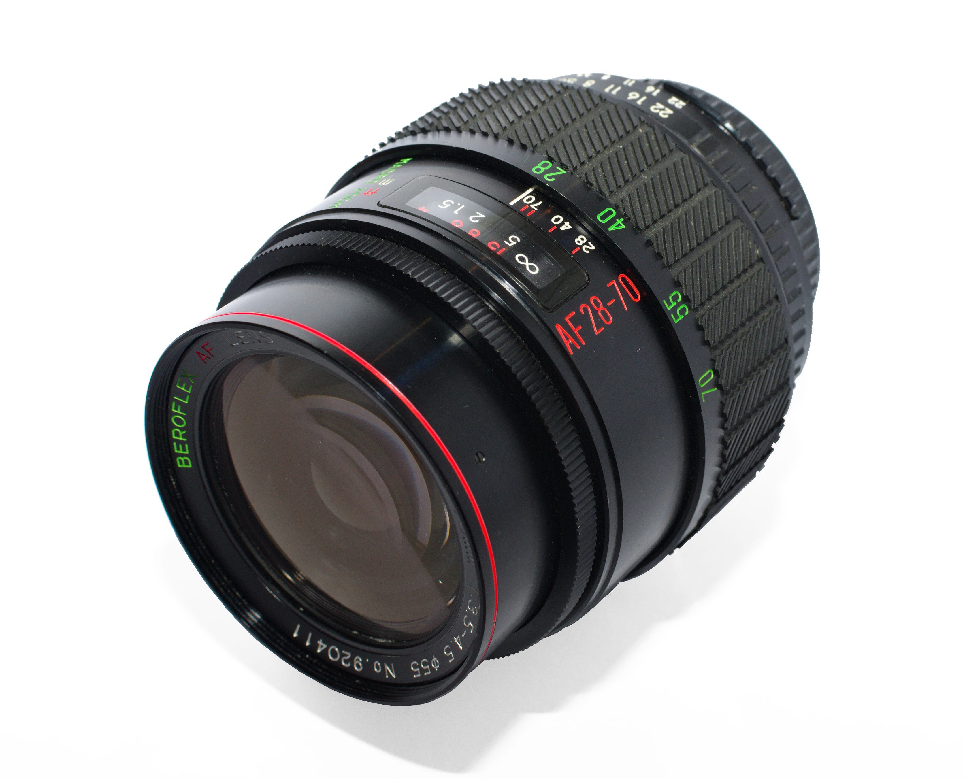 The Beroflex AF28-70 1:3.5-4.5 is an early third-party AF lens released in ca. 1988, and was designed for the first generation of mainstream SLRs with autofocus capability, specifically Nikon F and Minolta A with screw-drive AF engagement. Versions for Pentax K as well as Canon EF are claimed to exist, but evidence is lacking. Beroflex was a West German reseller of cameras and photography-related gear imported primarily from East Germany, though not exclusively, and the actual manufacturer is Samyang of South Korea.The lens has a 28 to 70 mm focal range and a minimum focus distance of 45 centimeters. The rotating front element is threaded for a 55 mm lens hood or filter. Weight comes in at about 380 grams with both end caps. On Nikon bodies, the lens relies on the camera's in-body AF motor and consequently cannot autofocus on cheaper models in the D3xxx or D5xxx lineup. It also predates the AF-D standard and exposure therefore may not be as accurate in certain situations such as when using fill flash.